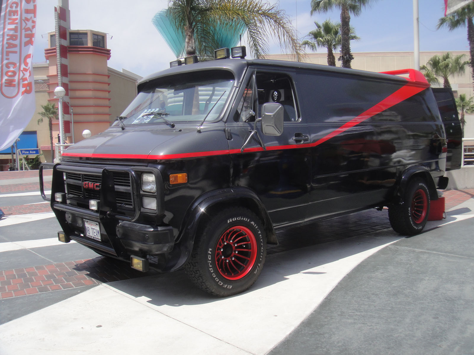 Long Beach Comic Expo 2012 - A-Team van